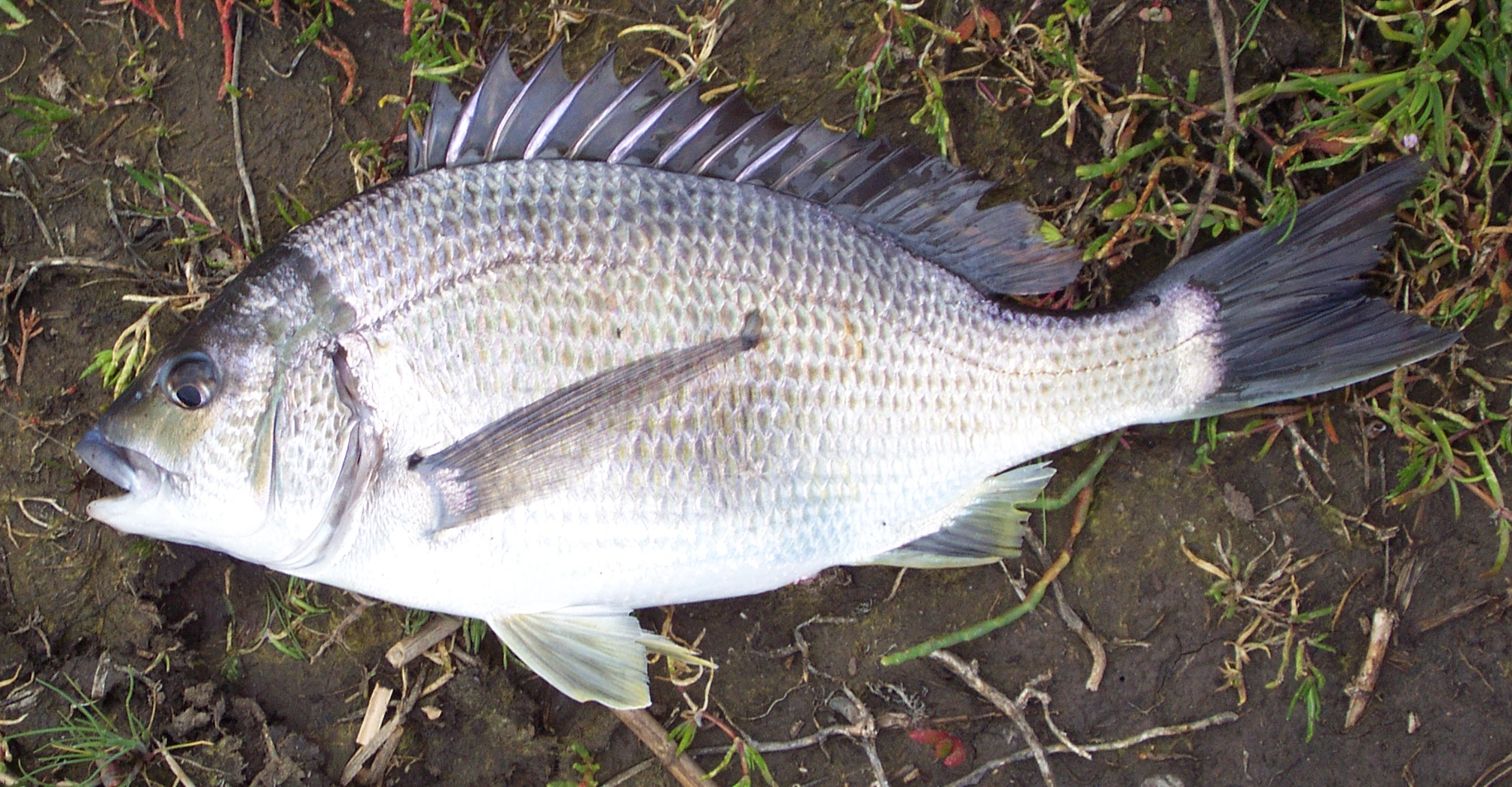 Acanthopagrus butcheri (Black bream), caught in Snowy River, Victoria